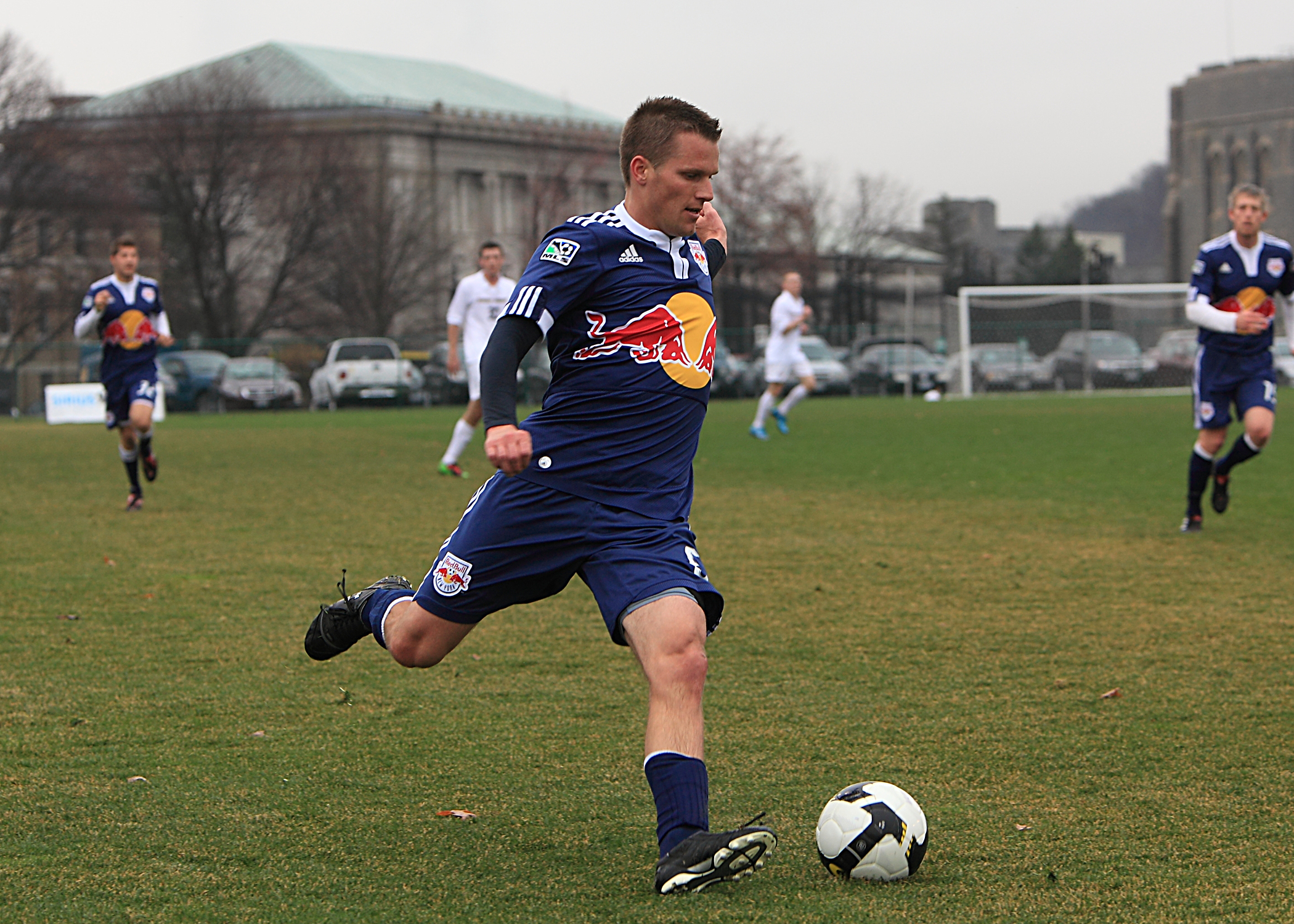 Seth Stammler of New York Red Bulls in March 2010